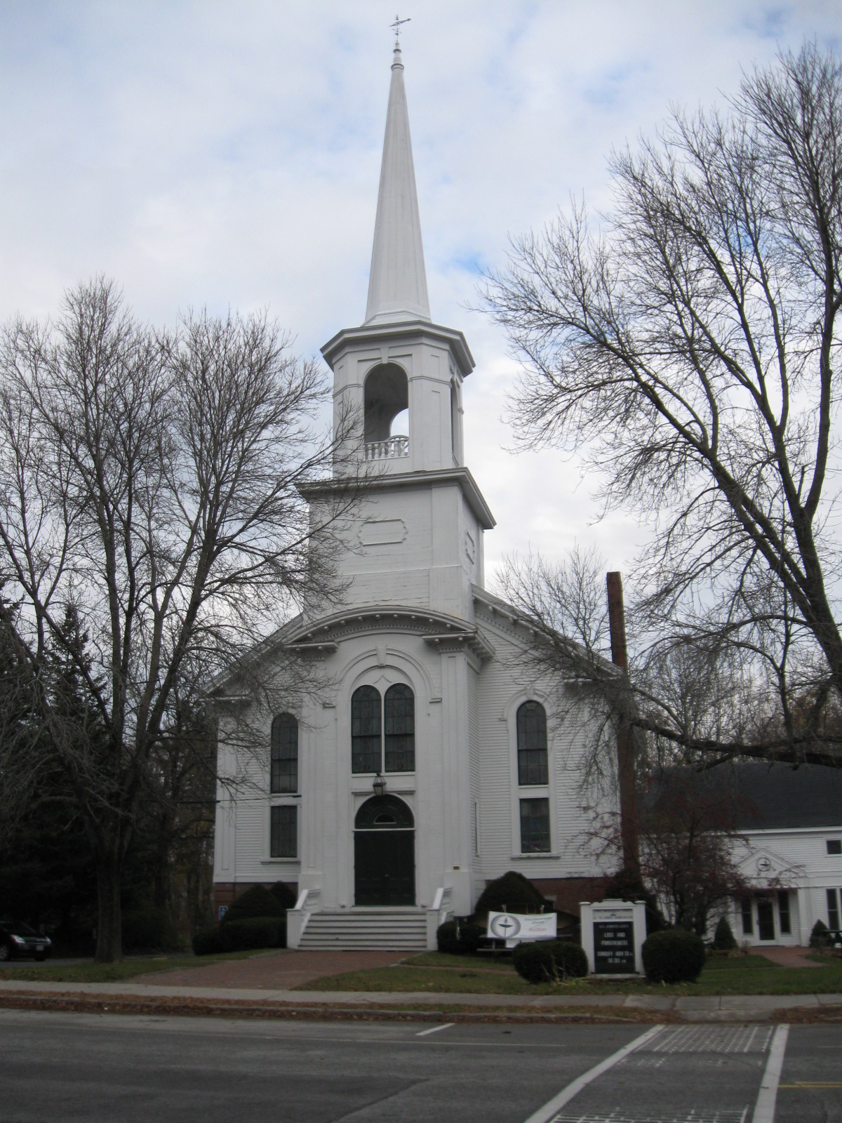 Central Parish Church, Yarmouth, Maine. Photo by Ken Gallager, Nov. 11, 2011.